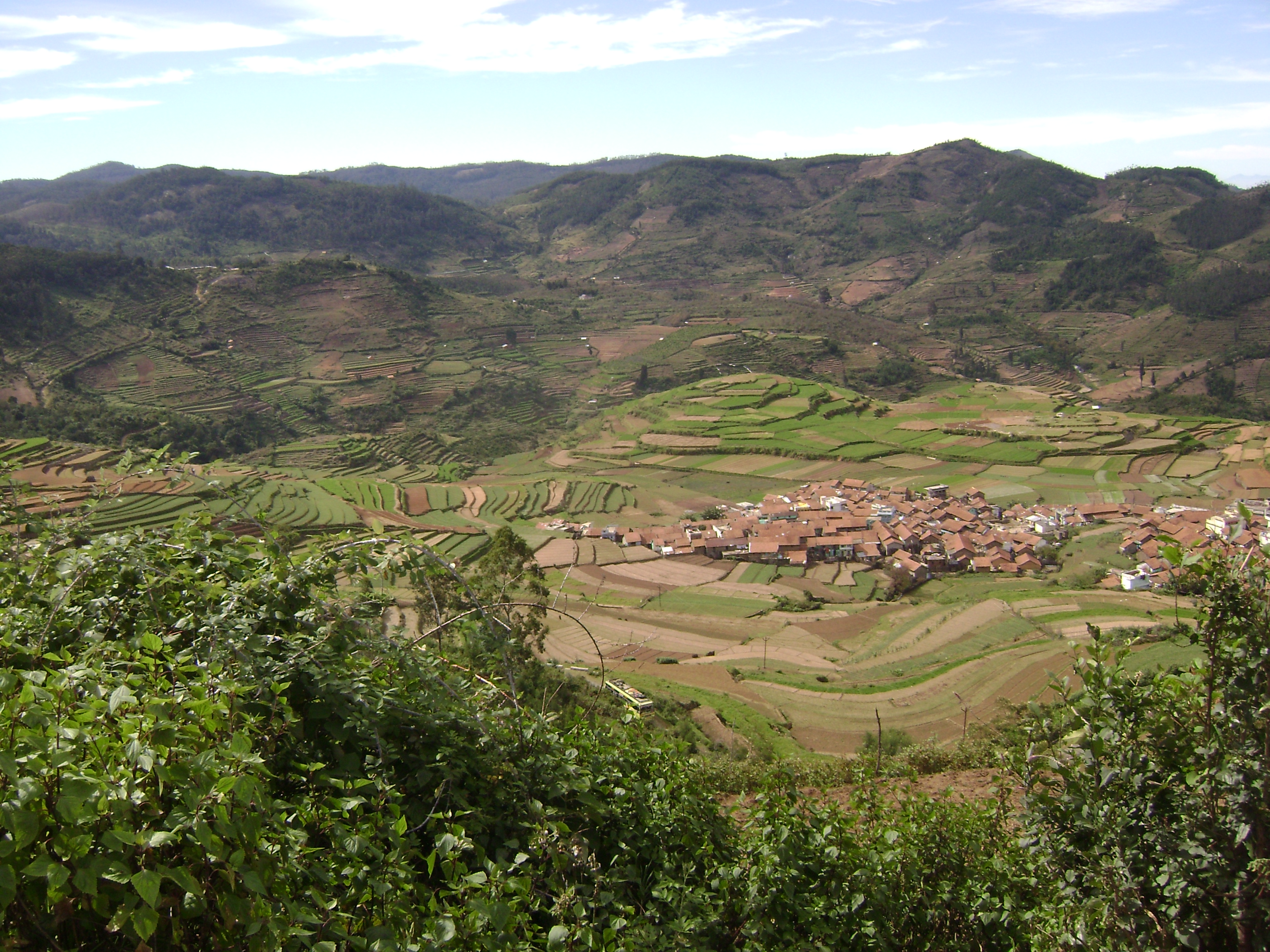 Poombarai village